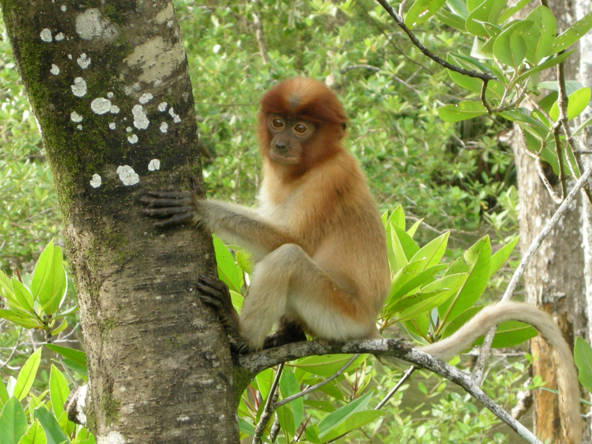 Juvenile Proboscis Monkey in Bako National Park, Borneo, Malaysia